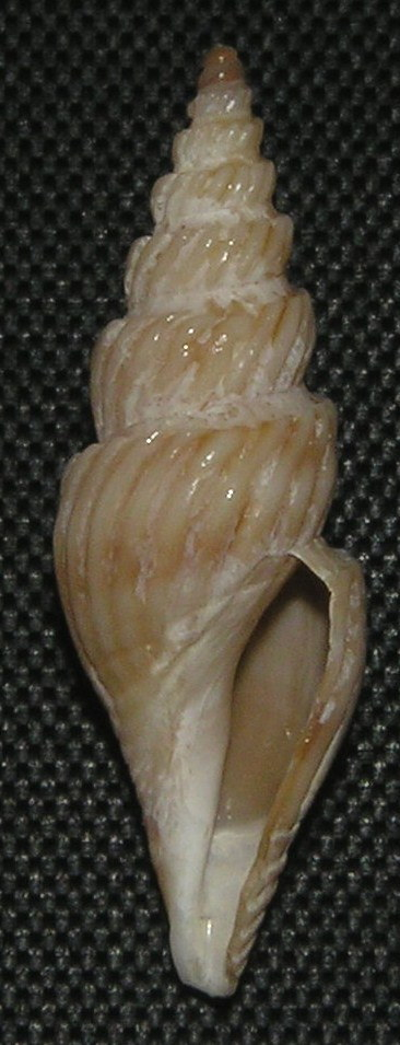 Tropidoturris scitecosta (Sowerby III, 1903); family Borsoniidae; South Africa